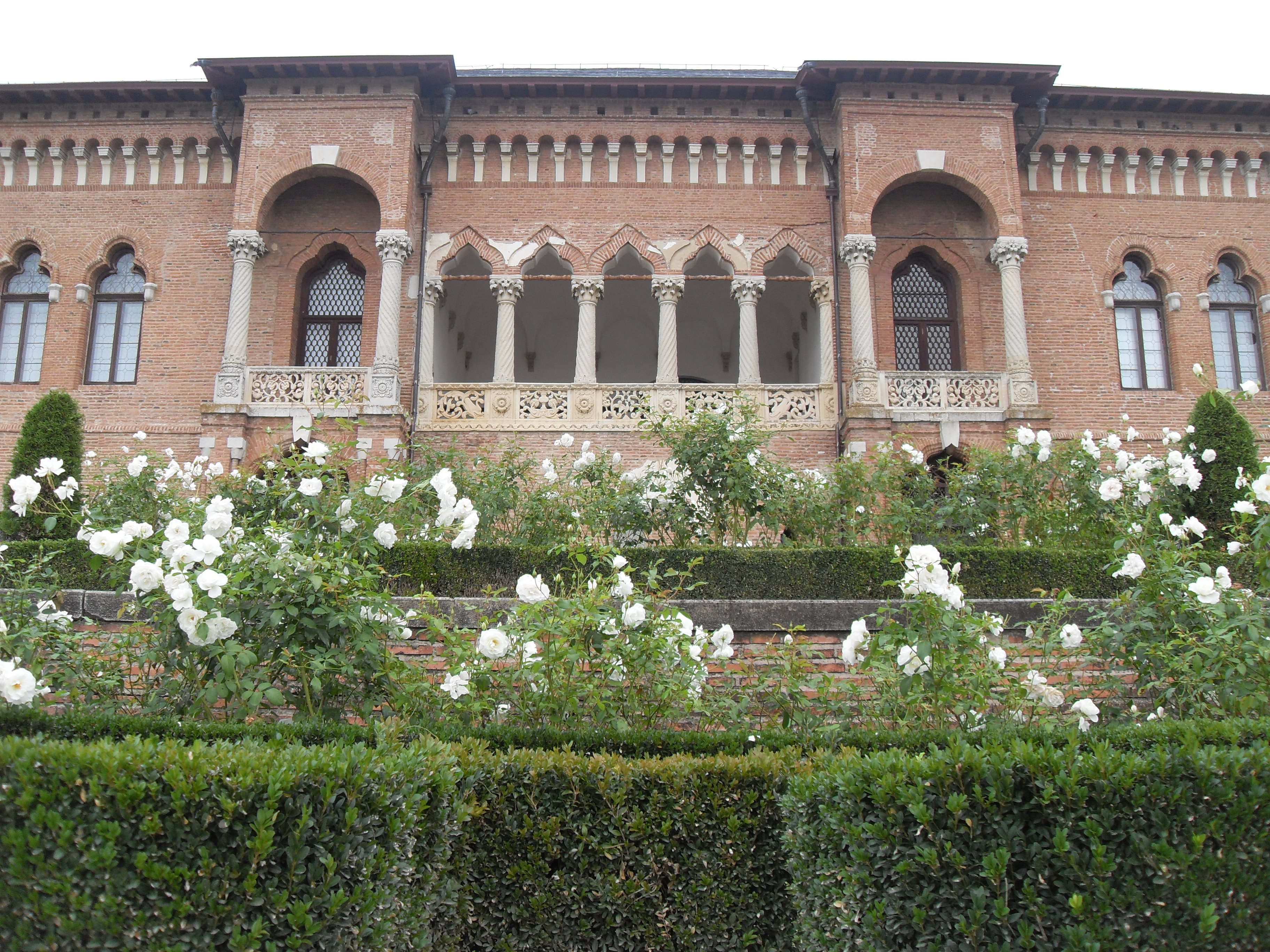 Mogoşoaia Palace and garden — situated about 10 kilometres from Bucharest, Romania. It was built between 1698-1702 by Constantin Brâncoveanu in what is called the Romanian Renaissance style or Brâncovenesc style, a combination of Venetian and Ottoman elements. The palace bears the name of the widow of the Romanian boyar Mogoş, who owned the land it was built on. The Palace was to a large extent rebuilt in the 1920s by Marthe Bibesco.